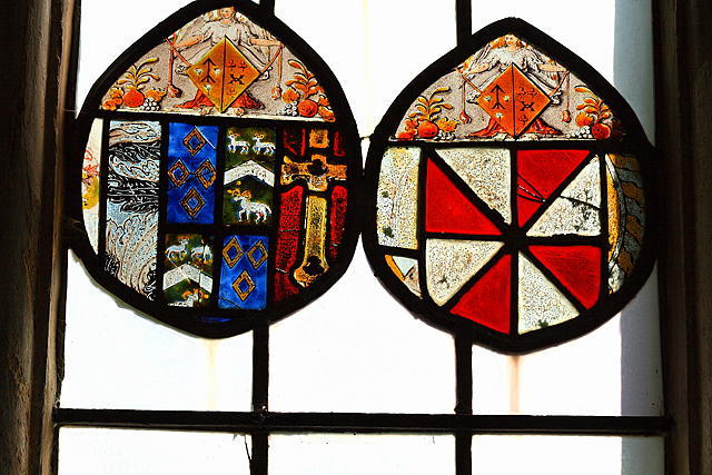 Mapperton Church C16 Stained Glass Roundels (3). Arms: Rams: Sydenham (?) of Somerset; Gyronny of 8 argent and gules; Azure, 4 mascles or 1,2,1.